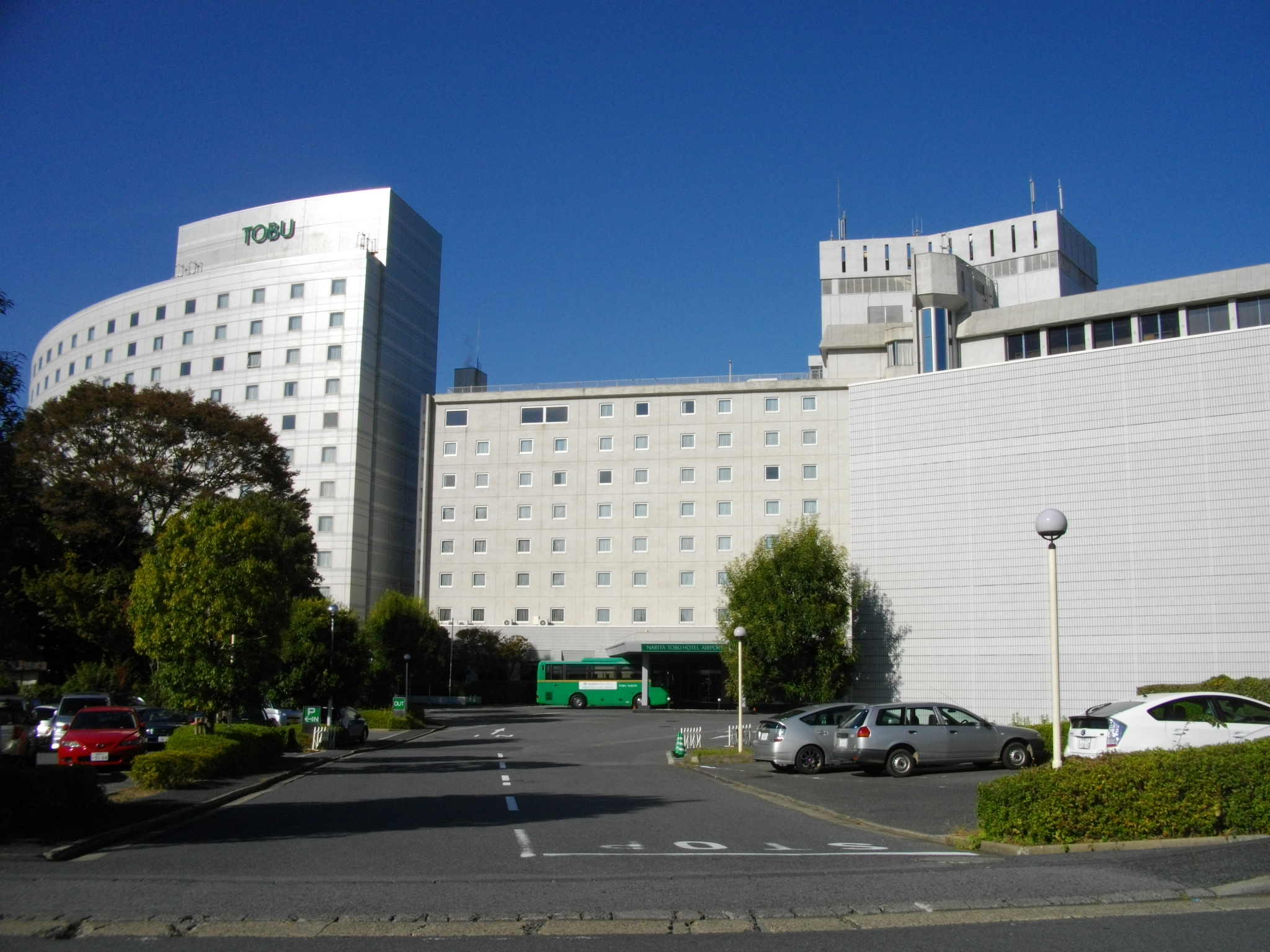 Narita Tobu Hotel Airport